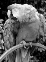 Sample image rendered with the grayscale indexed palette